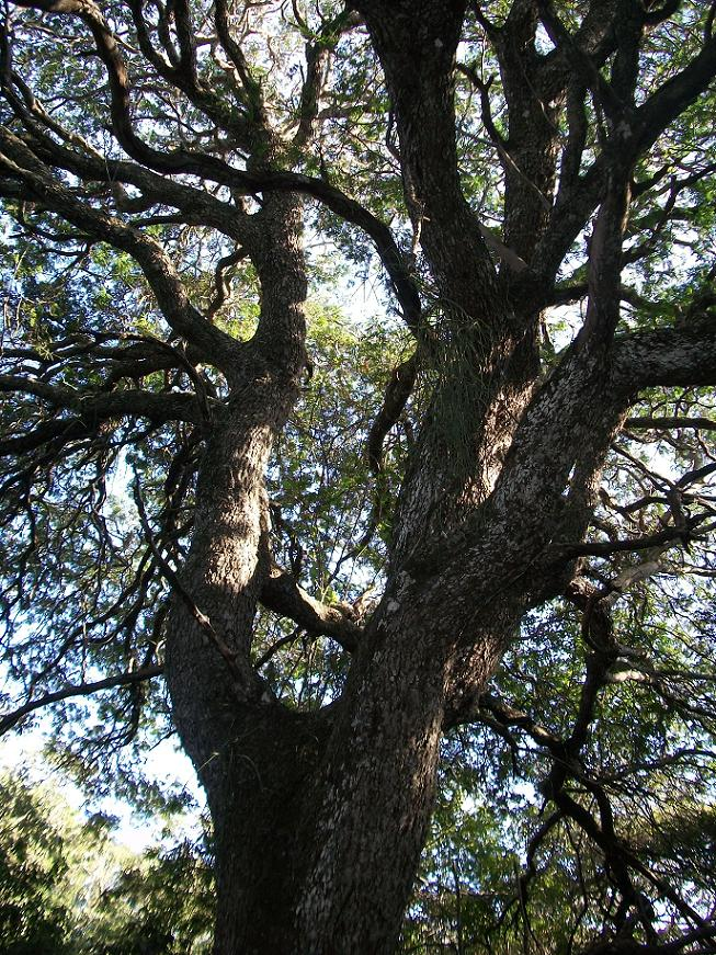 A large Newtonia hildebrandtii var. hildebrandtii at Nibela Peninsula, Lake St Lucia, KwaZulu-Natal, South Africa.